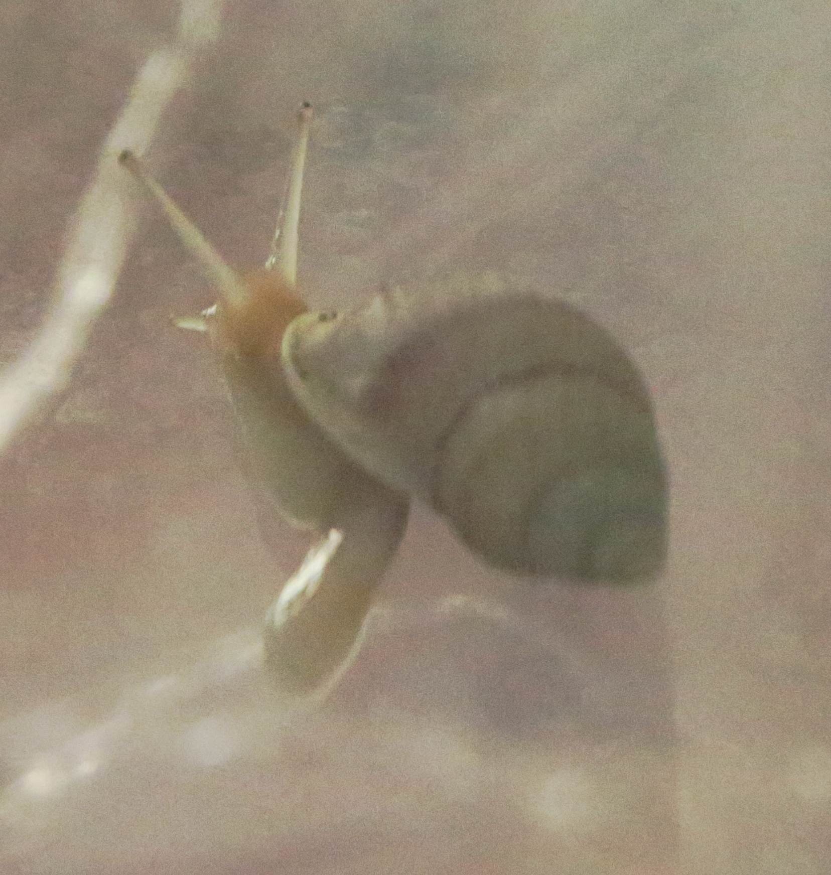 Photo of a Partula tohiveana snail at Marwell Wildlife